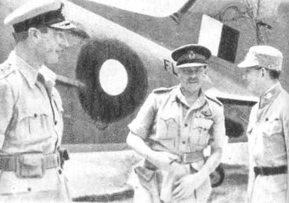 ADMIRAL MOUNTBATTEN CALL ON GENERAL SUN LI-JEN